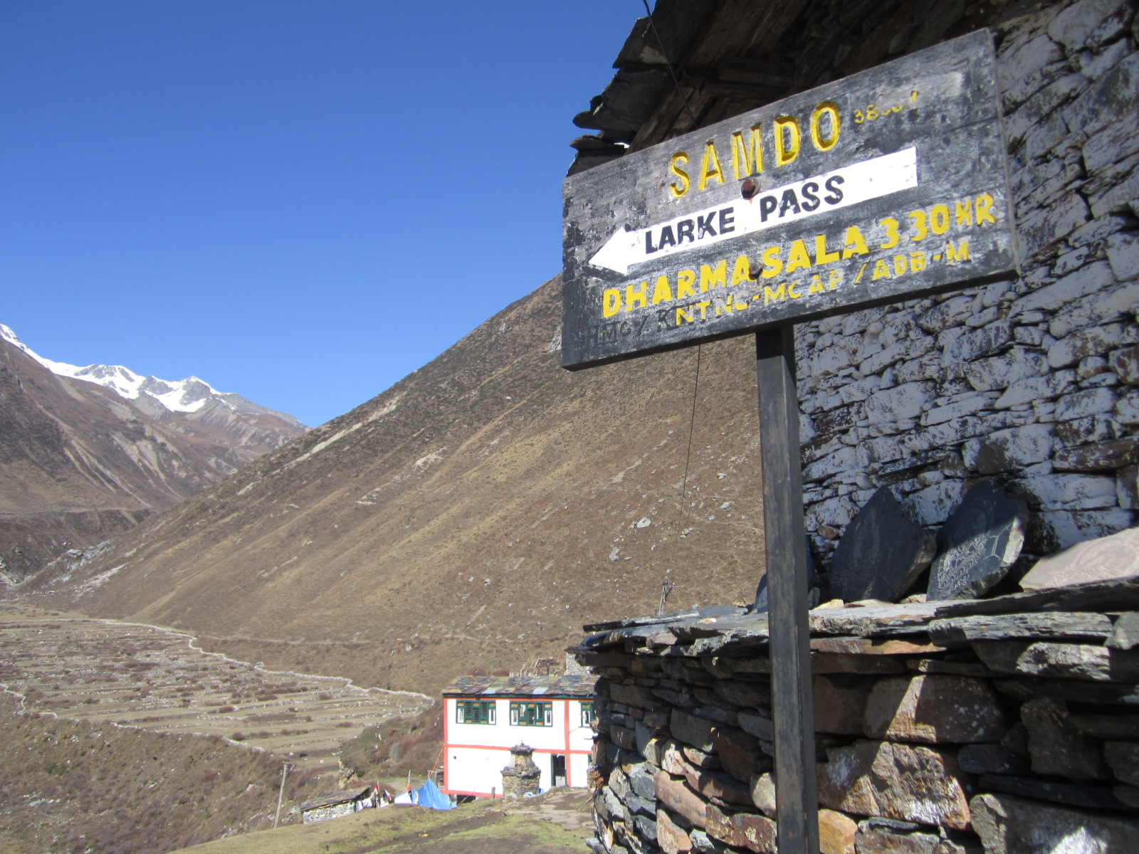 आखाँलाई शान्ति